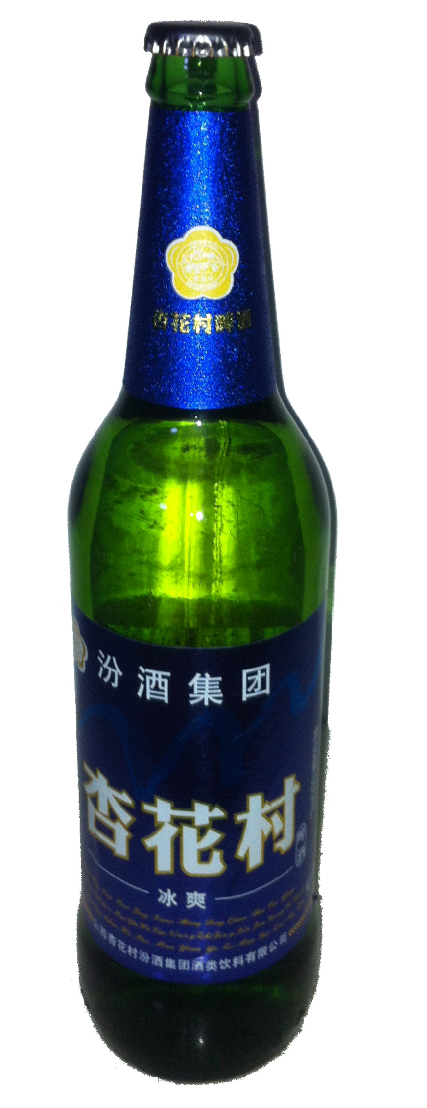 Xinghuacun beer